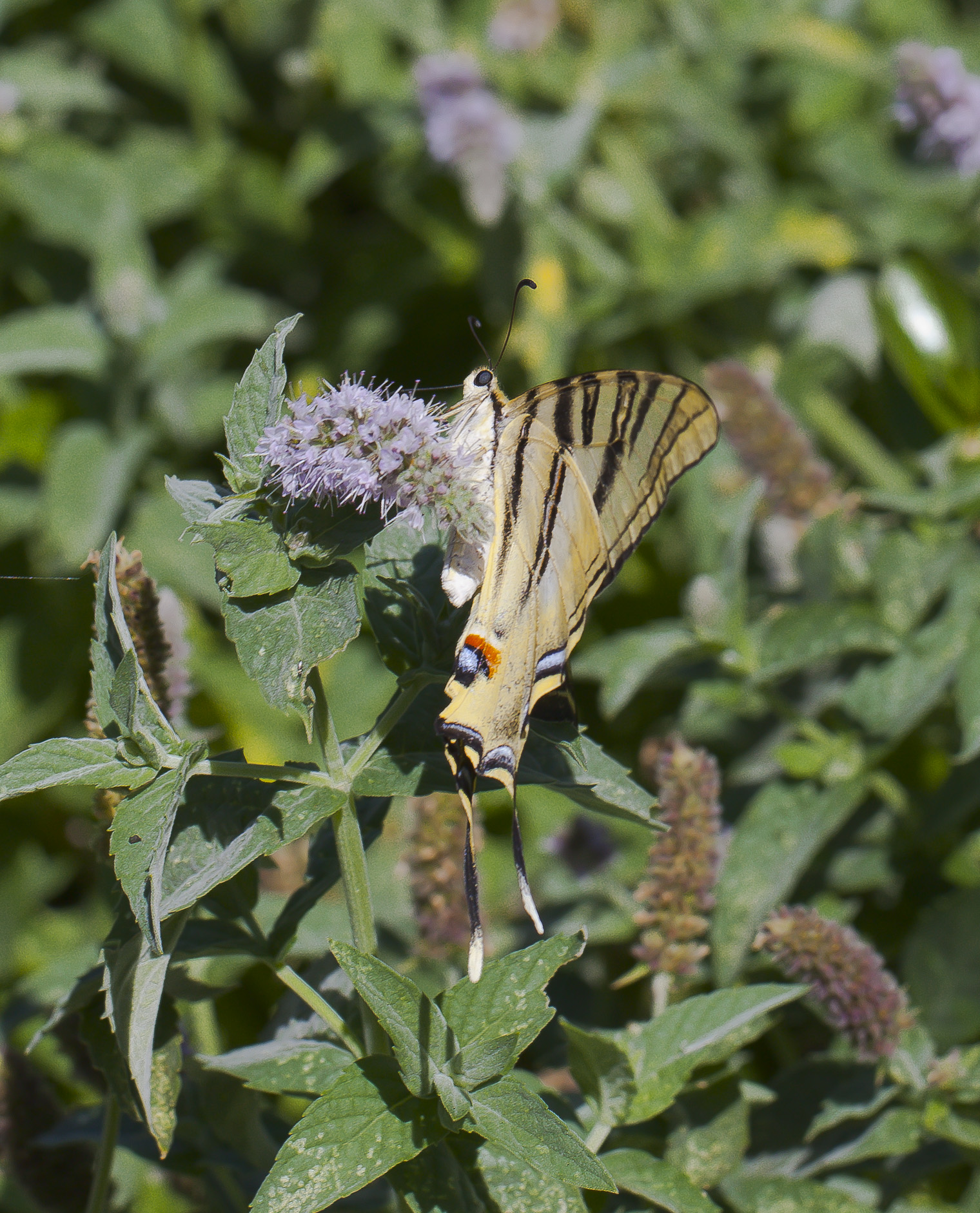 Southern scarce swallowtail (Iphiclides feisthamelii), Añón, Spain